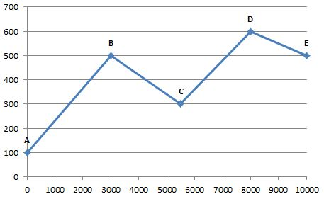 Diagram for explanation of of the different elevations (positive, negative, global), slopes (up, down)